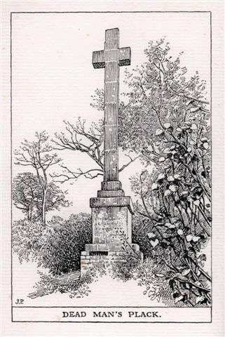 Drawing of Dead Man's Plack, from the book Dead Man's Plack and an Old Thorn by William Henry Hudson